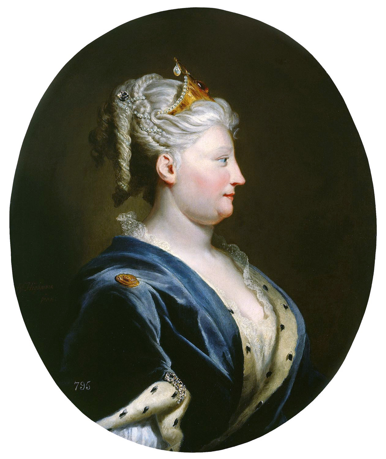 "Probably painted around 1735, Highmore’s profile portrait depicts the fifty-year-old Queen dressed in a loose gown lined with an ermine collar. Her hair is coiffed around a jewelled diadem and interlaced with a string of pearls. It is uncertain if Highmore obtained a sitting from the Queen; we know for certain from Vertue that his request was on one occasion denied. The artist’s obituary, which lists a portrait of the Queen, emphasised his ability to ‘take a likeness by memory as well as by sitting’. The companion image of George II was destroyed by fire in 1824 but appears in Charles Wild’s watercolour of the West Ante Room at Carlton House (RCIN 922175) and in an engraving by John Tinney."